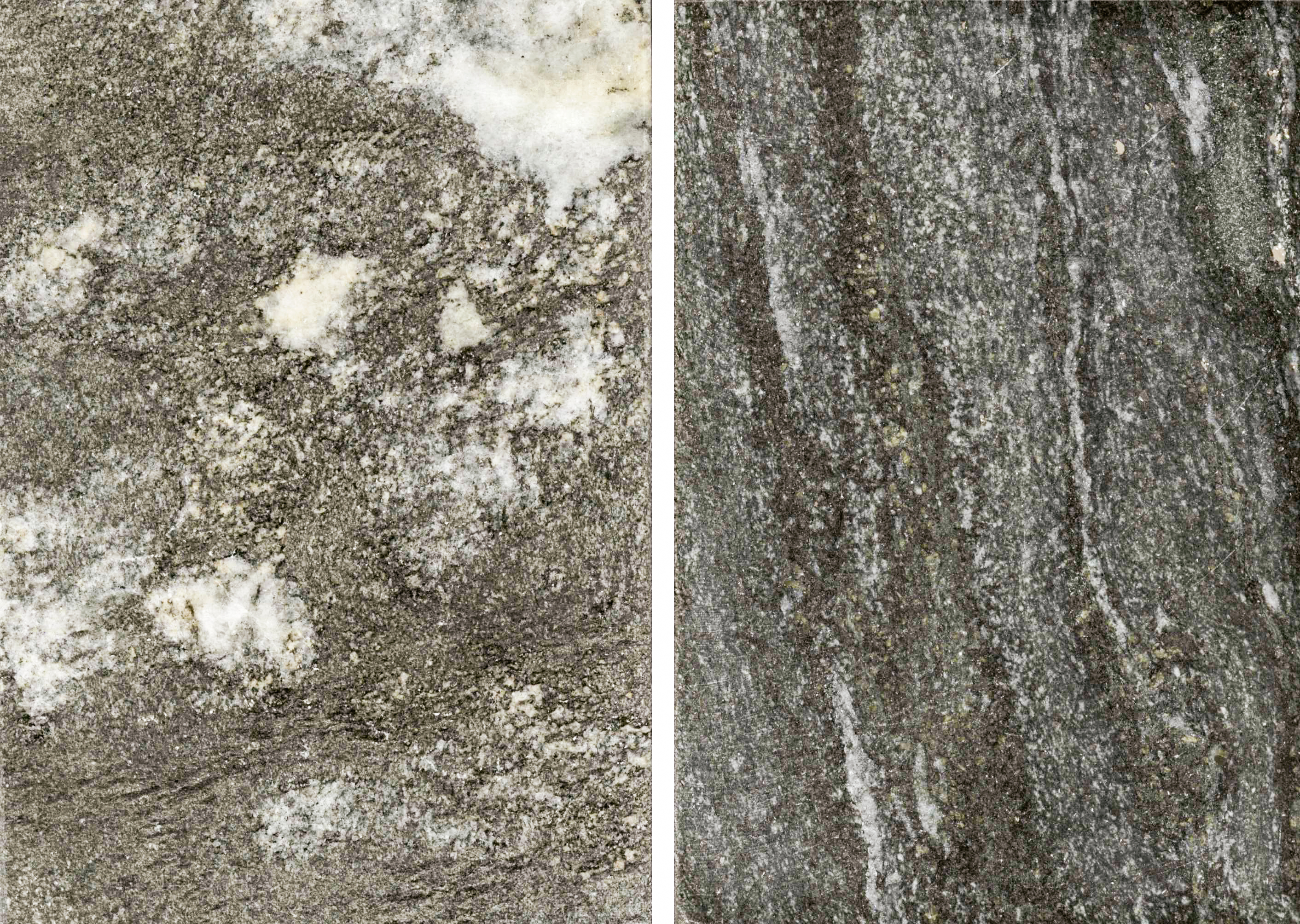 Prasinite Vert d'Evolène (Evolène, VS, Switzerland)